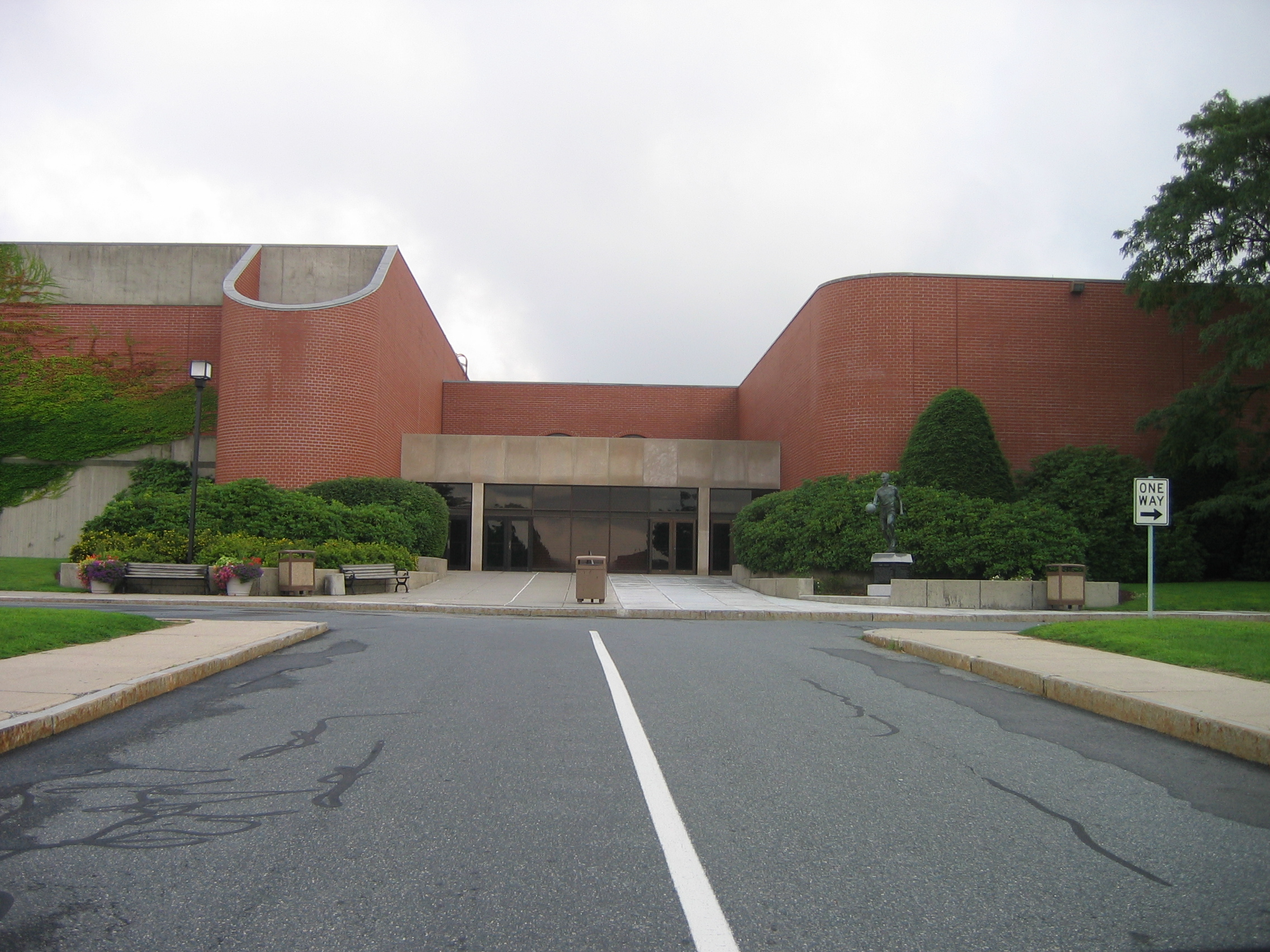 U Holy Cross Hart Rec Center